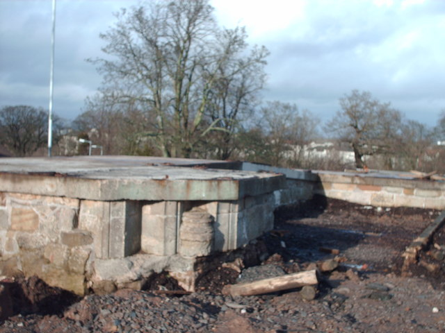 The ruins of Castlemilk House This was the entrance to Castlemilk House. Recently utilized as a children's play area it is under further development.